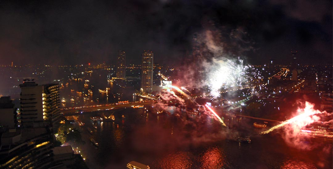 This is a merge of two photos that I took myself with an Olympus C8080W digital camera. It shows the Festival of Light celebrations in Bangkok, taken from the Shangri-La Hotel.